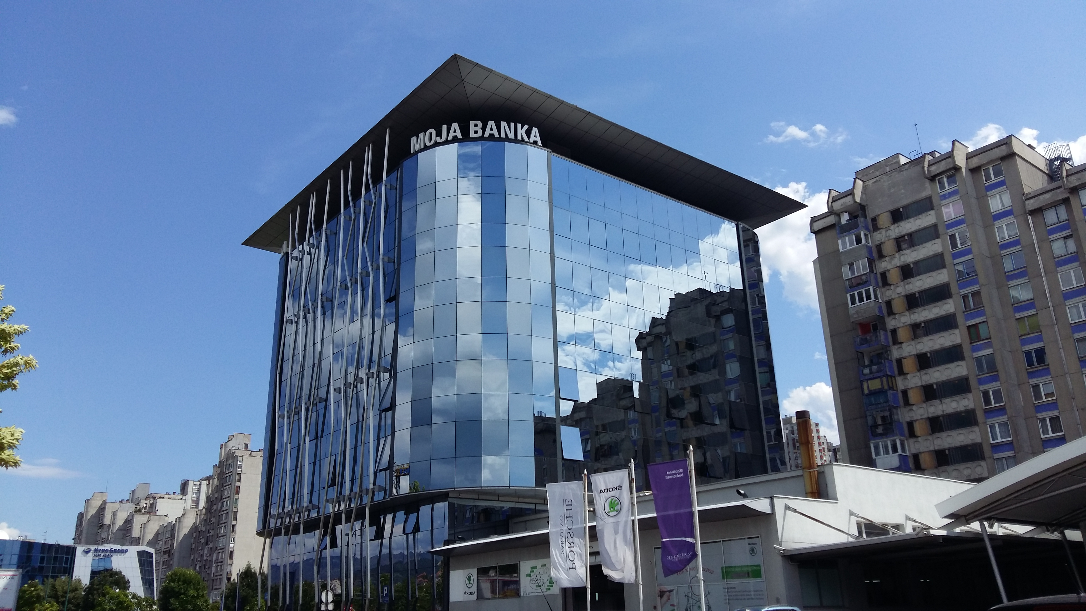 A branch of Moja Banka (IK Bank) in Sarajevo